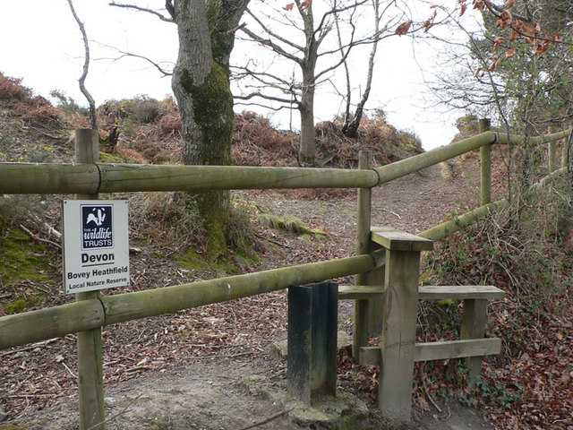 Bovey Heathfield Bovey Heathfield became Devon Wildlife Trust’s first ‘Community Nature Reserve’ after purchase in September 2002. It lies on the outskirts of Bovey Tracey and Heathfield in South Devon.